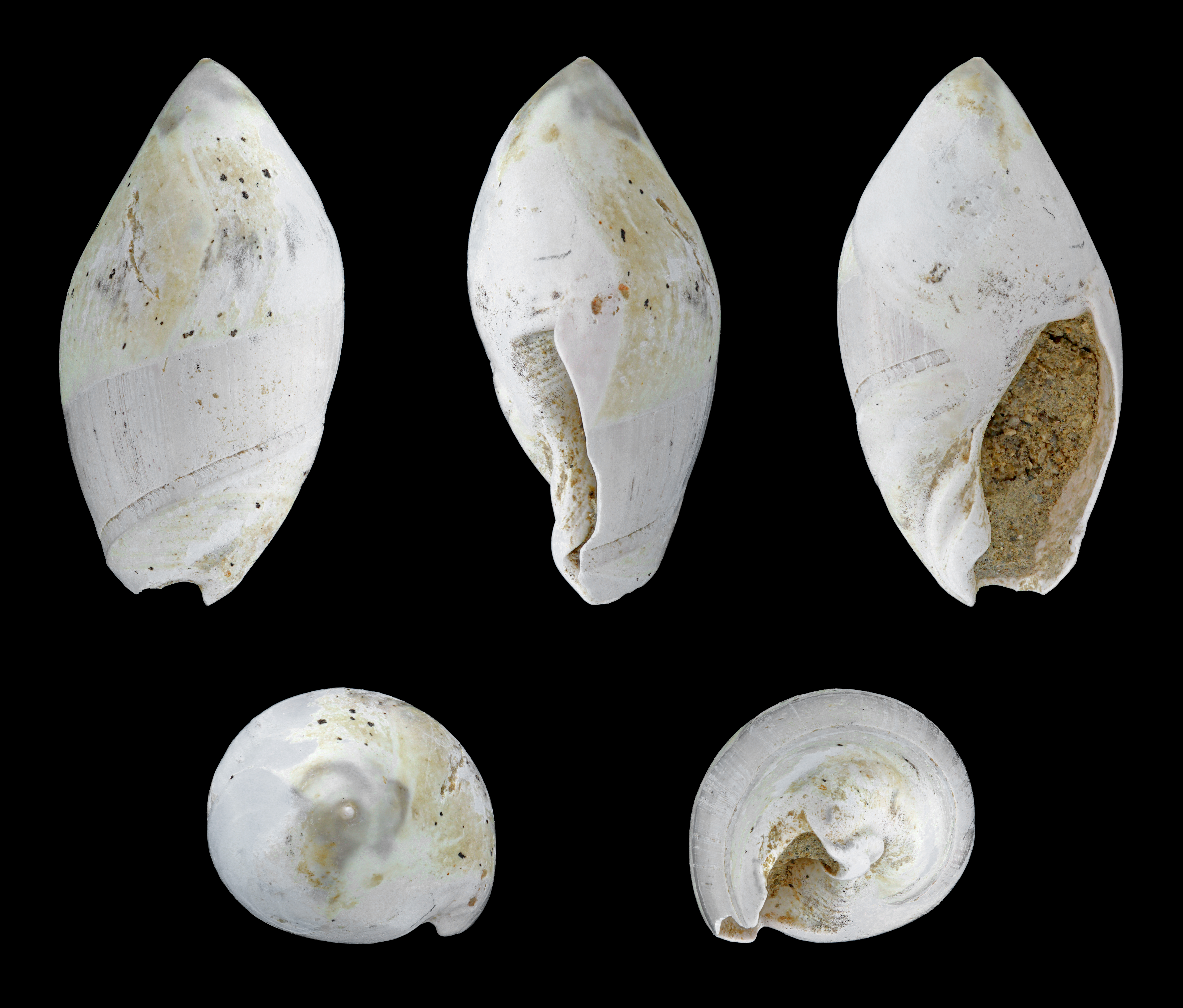 Length 2.5 cm; Miocene, Badenian; Gainfarn near Vienna, Austria; Shell of own collection, therefore not geocoded. Dorsal, lateral (right side), ventral, back, and front view.